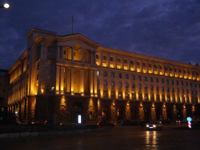 The Largo in Sofia, Bulgaria by night